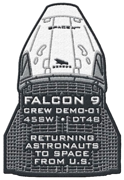 U.S. Air Force 45th Space Wing embroidered patch for SpaceX's Crew Dragon Demonstration Mission-1 (DM-1)